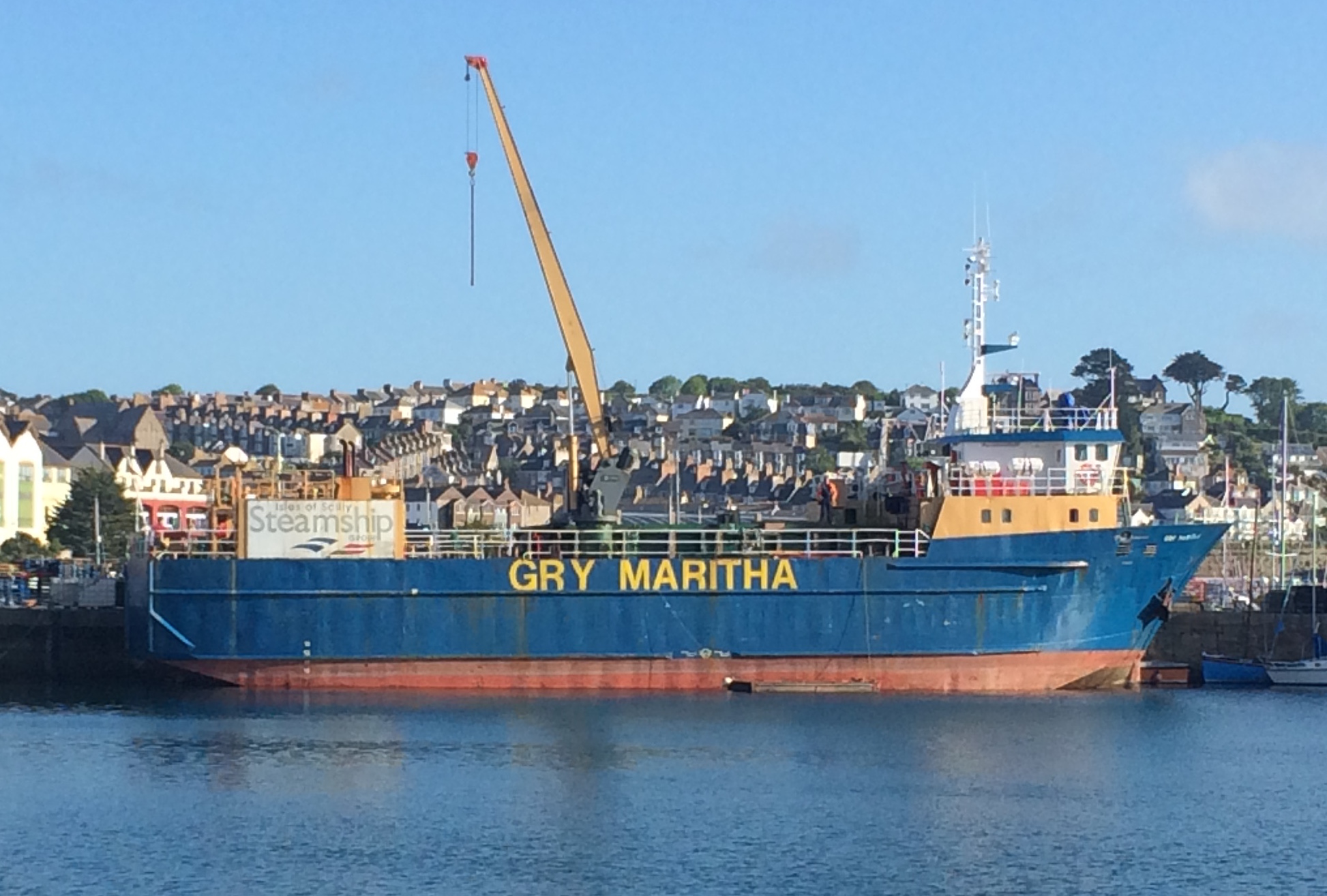 The vessel Gry Maritha of the Isles of Scilly Steamship Company, preparing to sail from Penzance, Cornwall.